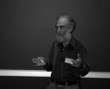 Mikhail Gromov at the IHES, 2007